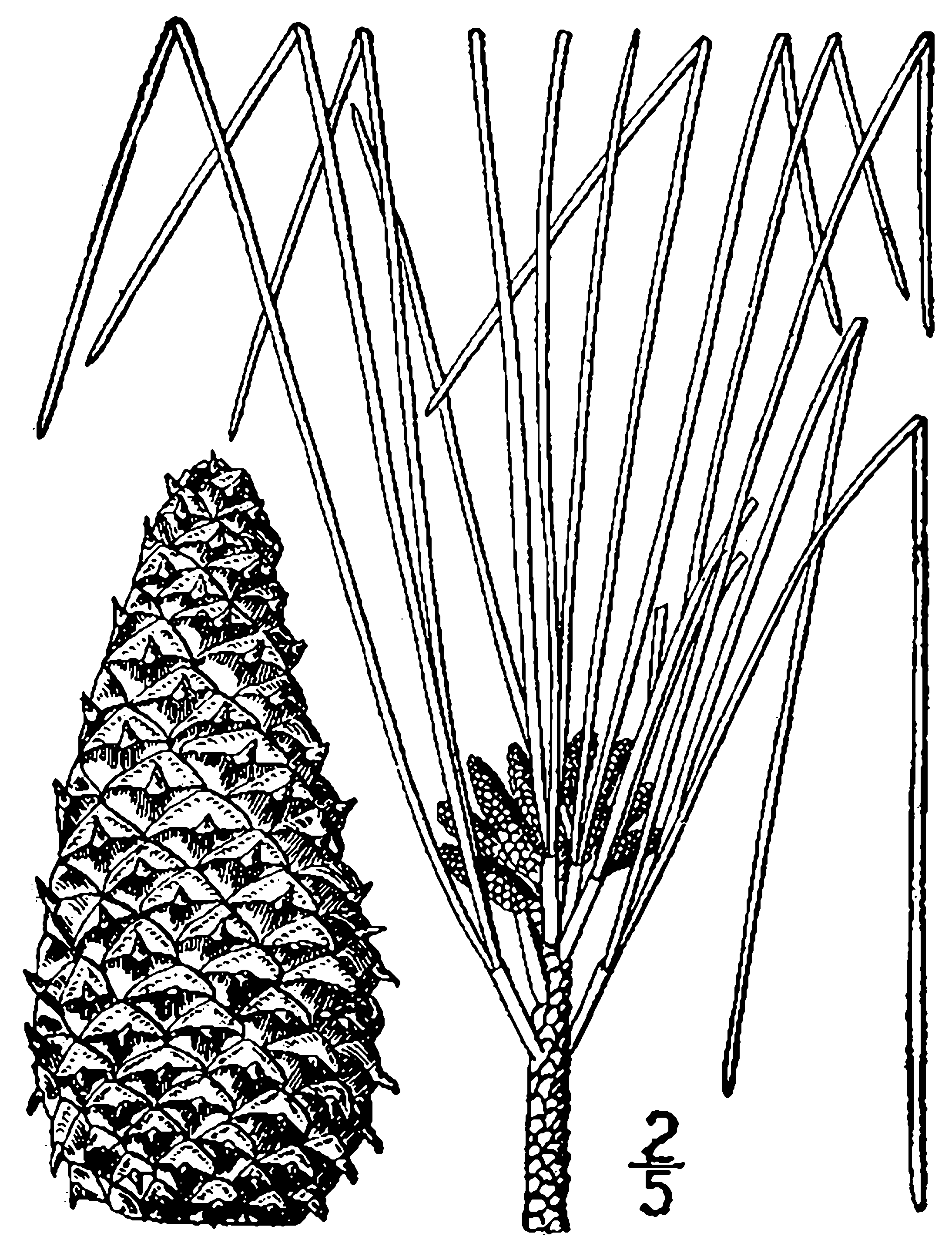 Loblolly Pine. Drawing.